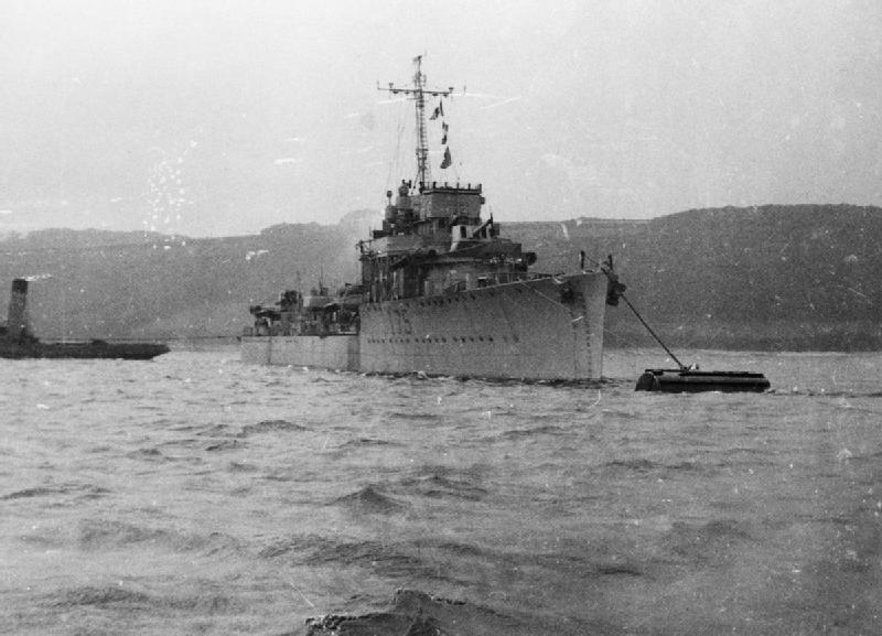 HMS Venomous At a buoy.